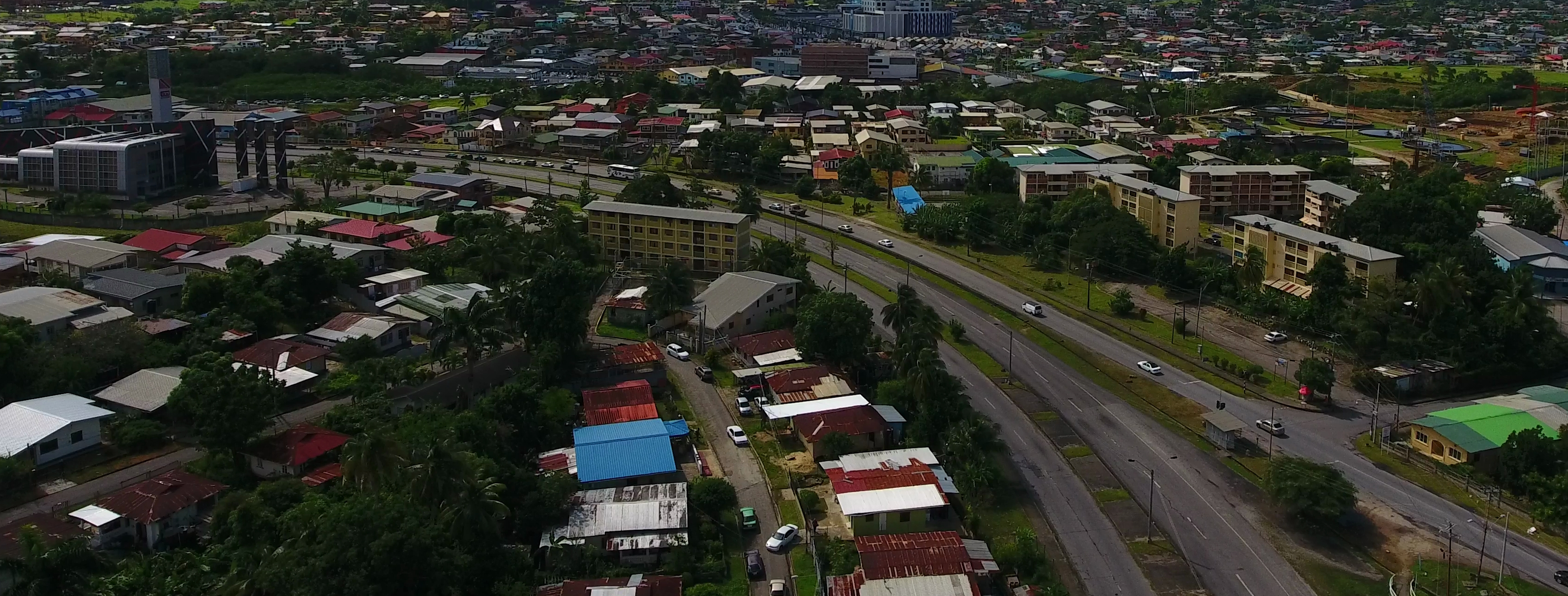 Rienzi Kirton Highway and Lady Hailes Avenue, San Fernando, Trinidad and Tobago. Left: UTT South Campus. Back centre: Gulf City Mall. Photo taken as part of the Southern Trinidad Aerial Photo Project, a small project sponsored by WMDE. Drone used: DJI Phantom 4. Snapshot taken from video footage via VLC, then cropped with IrfanView.